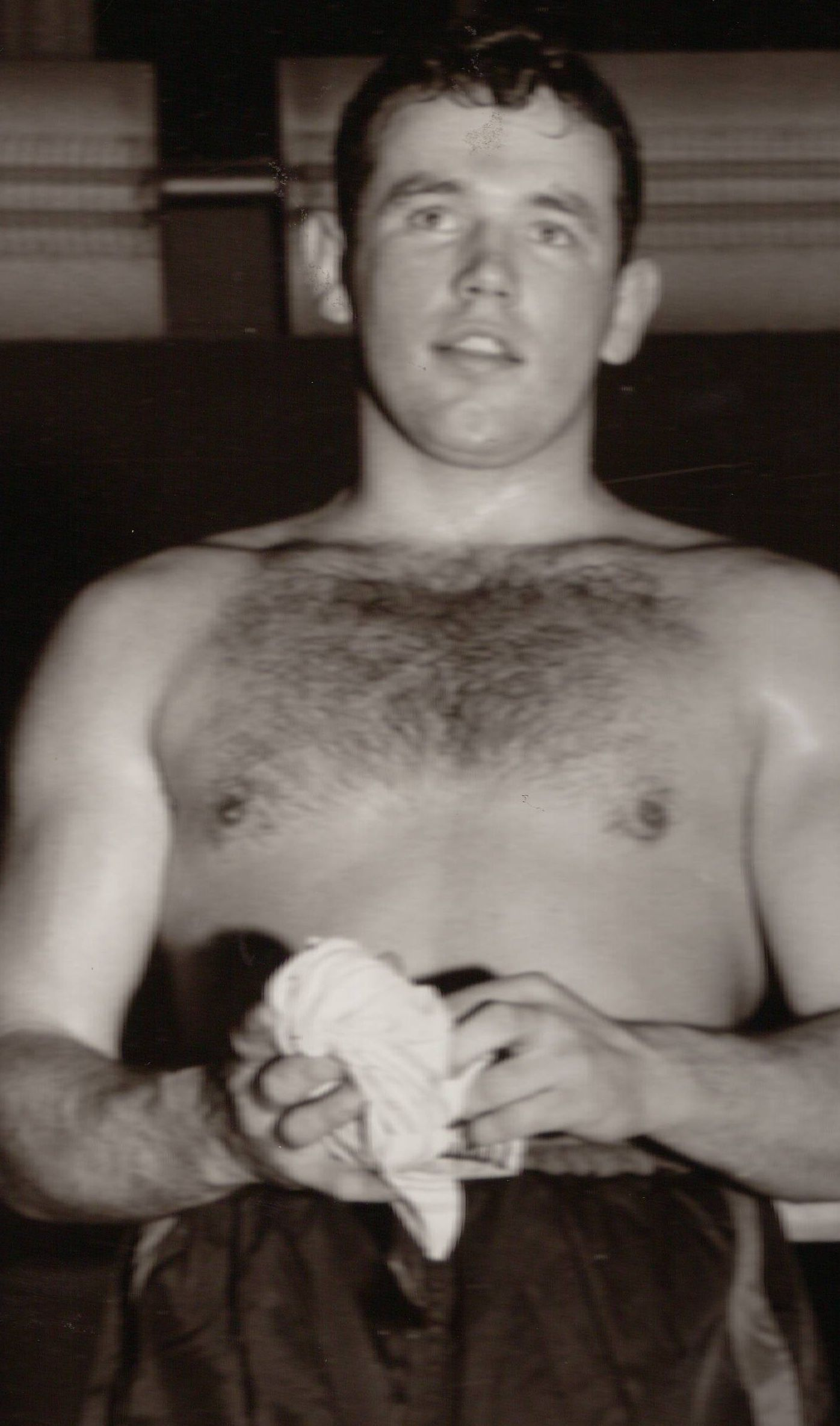 Swedish boxer Ingemar Johansson.